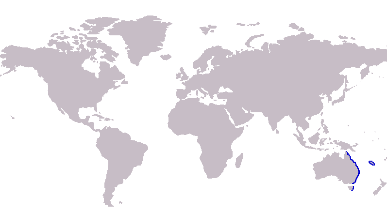 Distribution of the Sand whiting, Sillago ciliata using map based on GFDL image